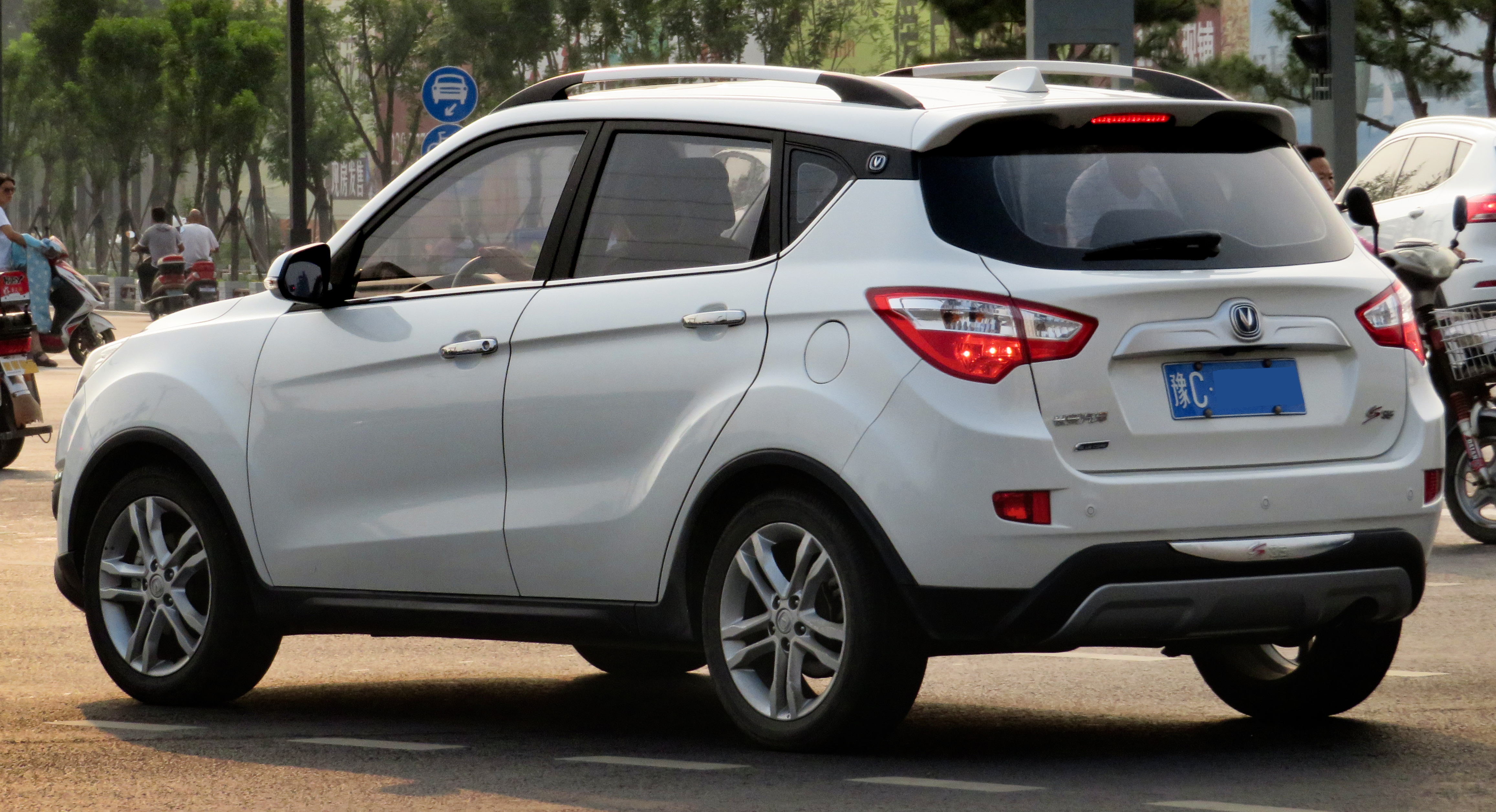 A 2015 Chang'an CS35 photographed at Guanlinzhen, in Luoyang, Henan province, China